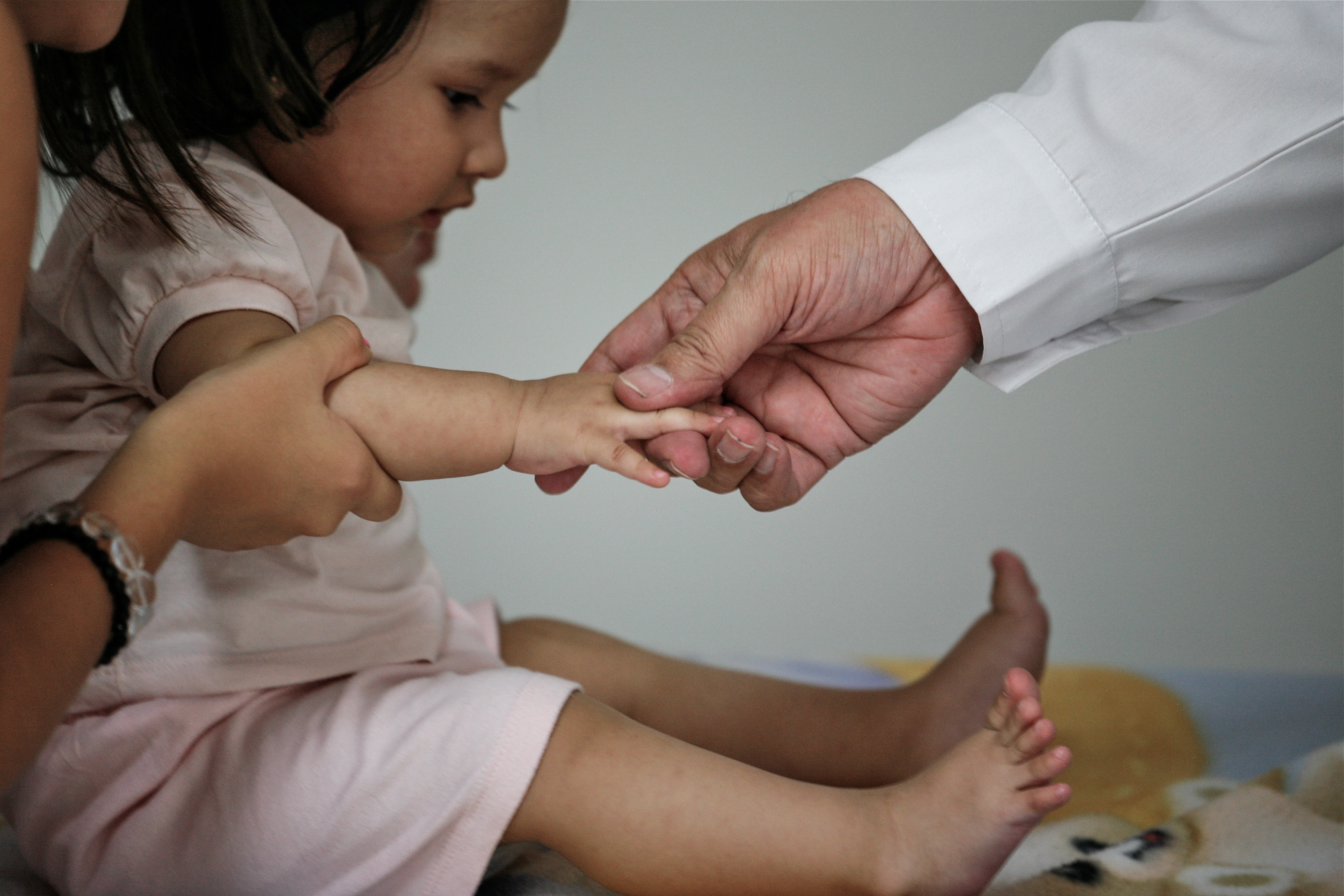 The Touch of Hands